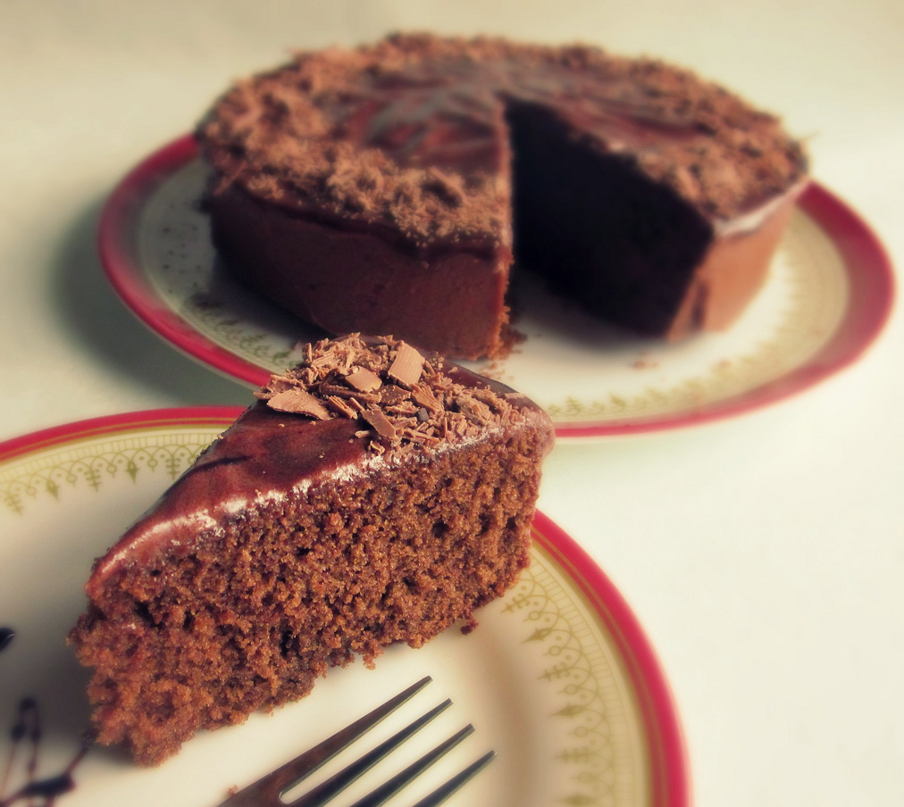 Chocolate Buttermilk Pound Cake